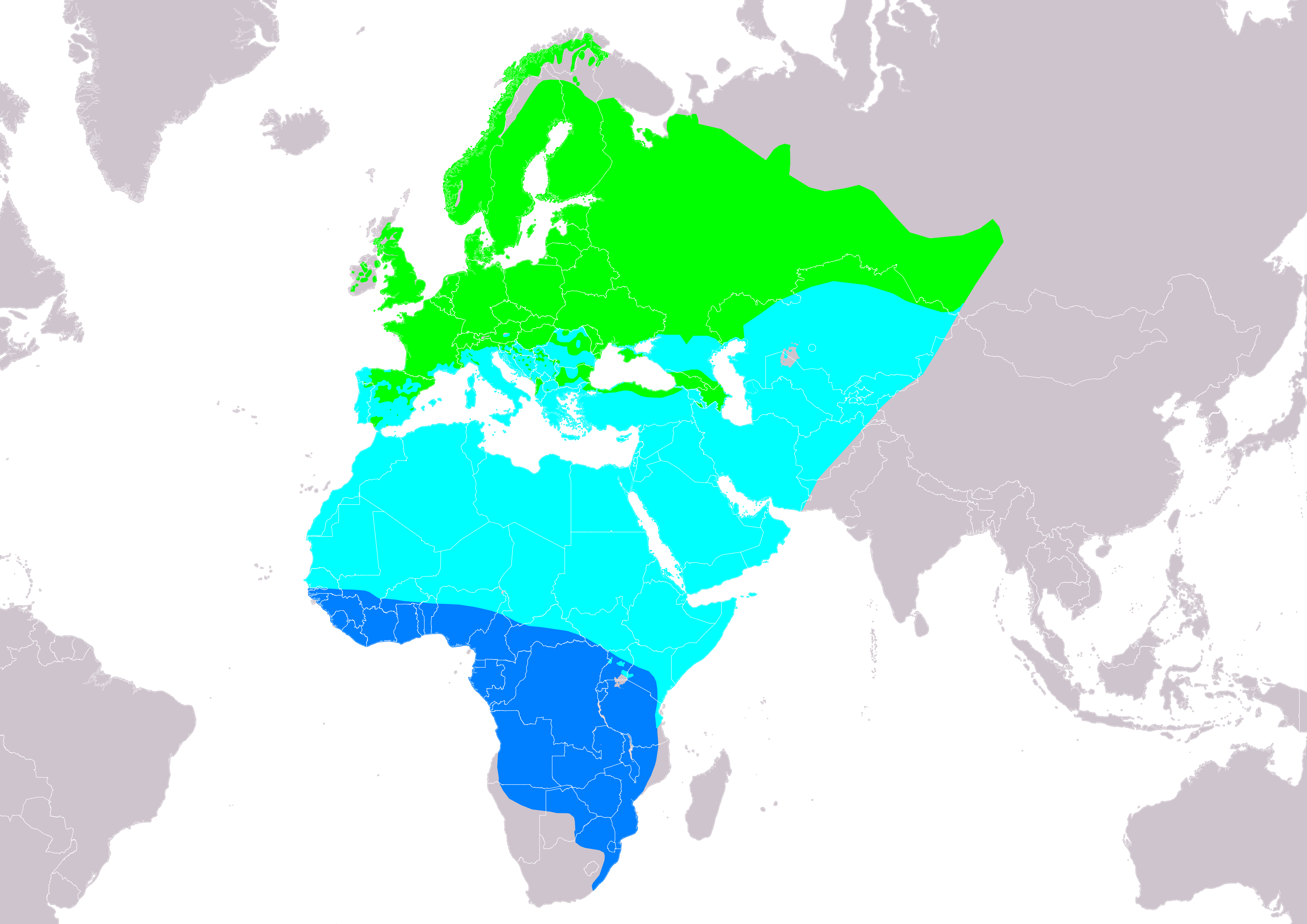 Distribution map of garden warbler (Sylvia borin) according to IUCN version 2020.1 (compiled by: BirdLife International and Handbook of the Birds of the World (2016) 2009.); key: Legend: Extant, breeding (#00FF00), Extant, passage (#00FFFF), Extant, non-breeding (#007FFF)